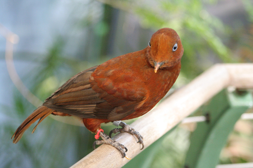 female Andean Cock-of-the-Rock (Rupicola peruviana)